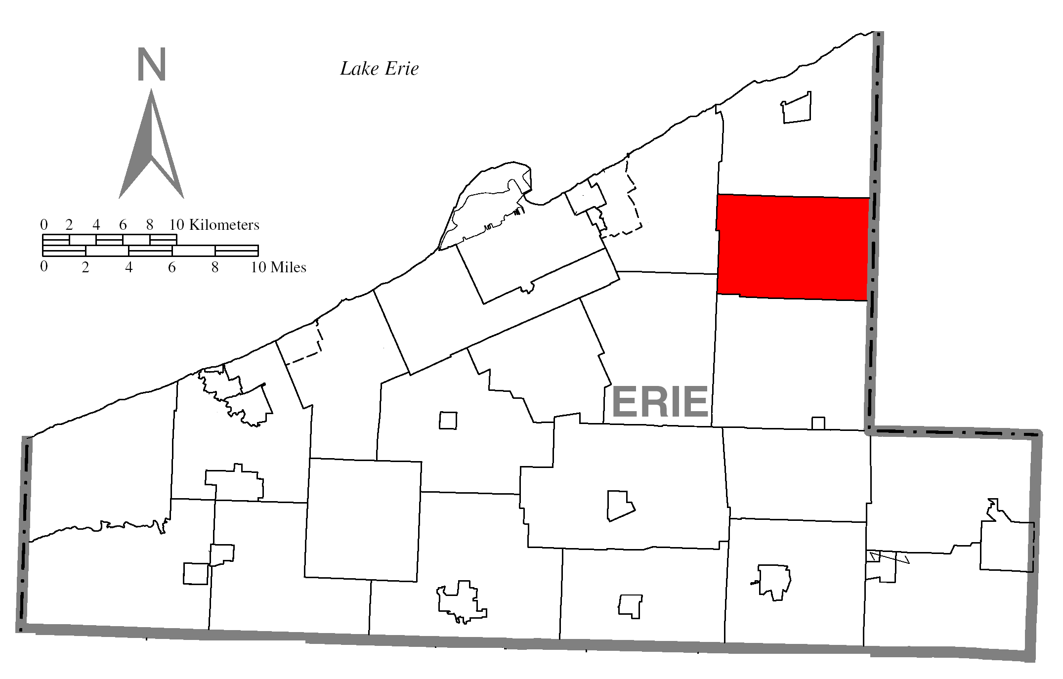 A map of Erie County showing Greenfield Township, Pennsylvania (alternate) highlighted on the map.